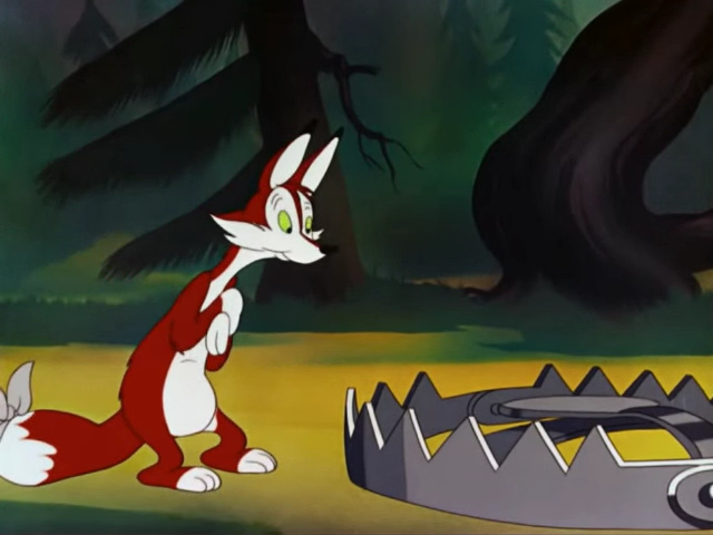 A screenshot from Fox Pop, where the Fox is inspecting a trap.